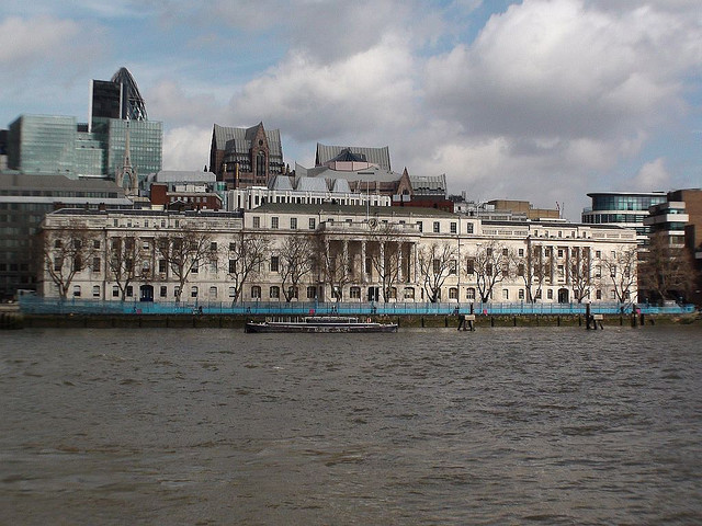 Custom House in London (20 Lower Thames Street), erected 1813-1817